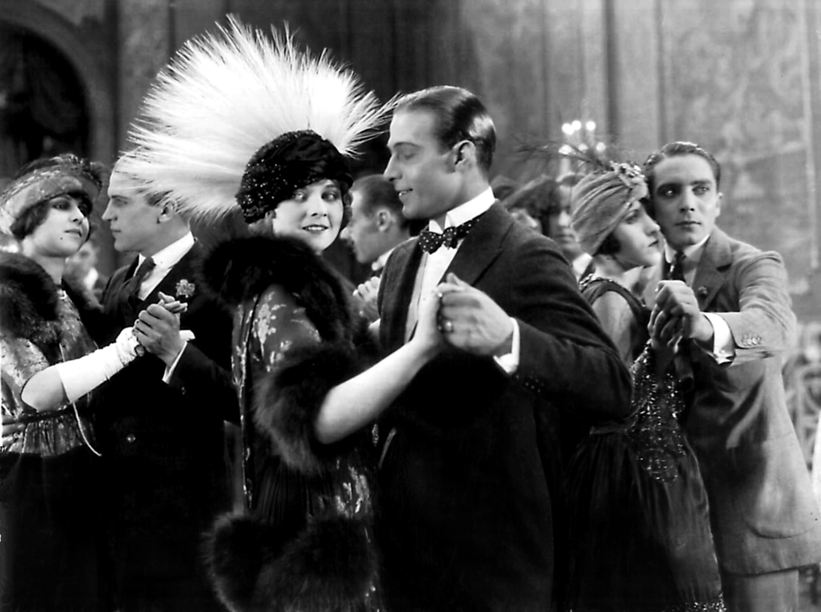 Film still from The Four Horsemen of the Apocalypse